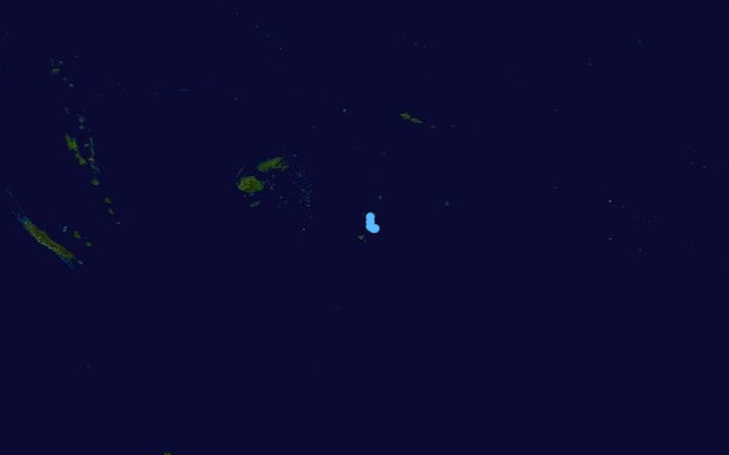 Tropical Depression 09F (2007) track map. Saffir-Simpson Hurricane ScaleTDTS12345